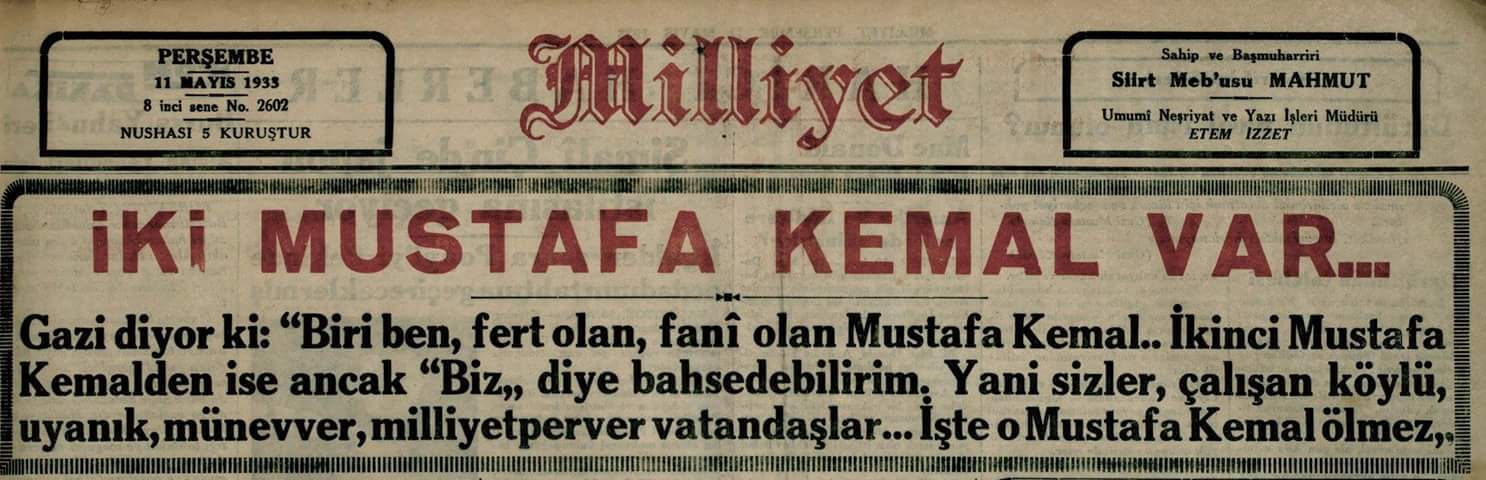 Kemal Atatürk (or alternatively written as Kamâl Atatürk, Mustafa Kemal Pasha until 1934, commonly referred to as Mustafa Kemal Atatürk; 1881 – 10 November 1938) was a Turkish field marshal, revolutionary statesman, author, and the founding father of the Republic of Turkey, serving as its first President from 1923 until his death in 1938. He undertook sweeping progressive reforms, which modernized Turkey into a secular, industrial nation. Ideologically a secularist and nationalist, his policies and theories became known as Kemalism. Due to his military and political accomplishments, Atatürk is regarded as one of the most important political leaders of the 20th century.